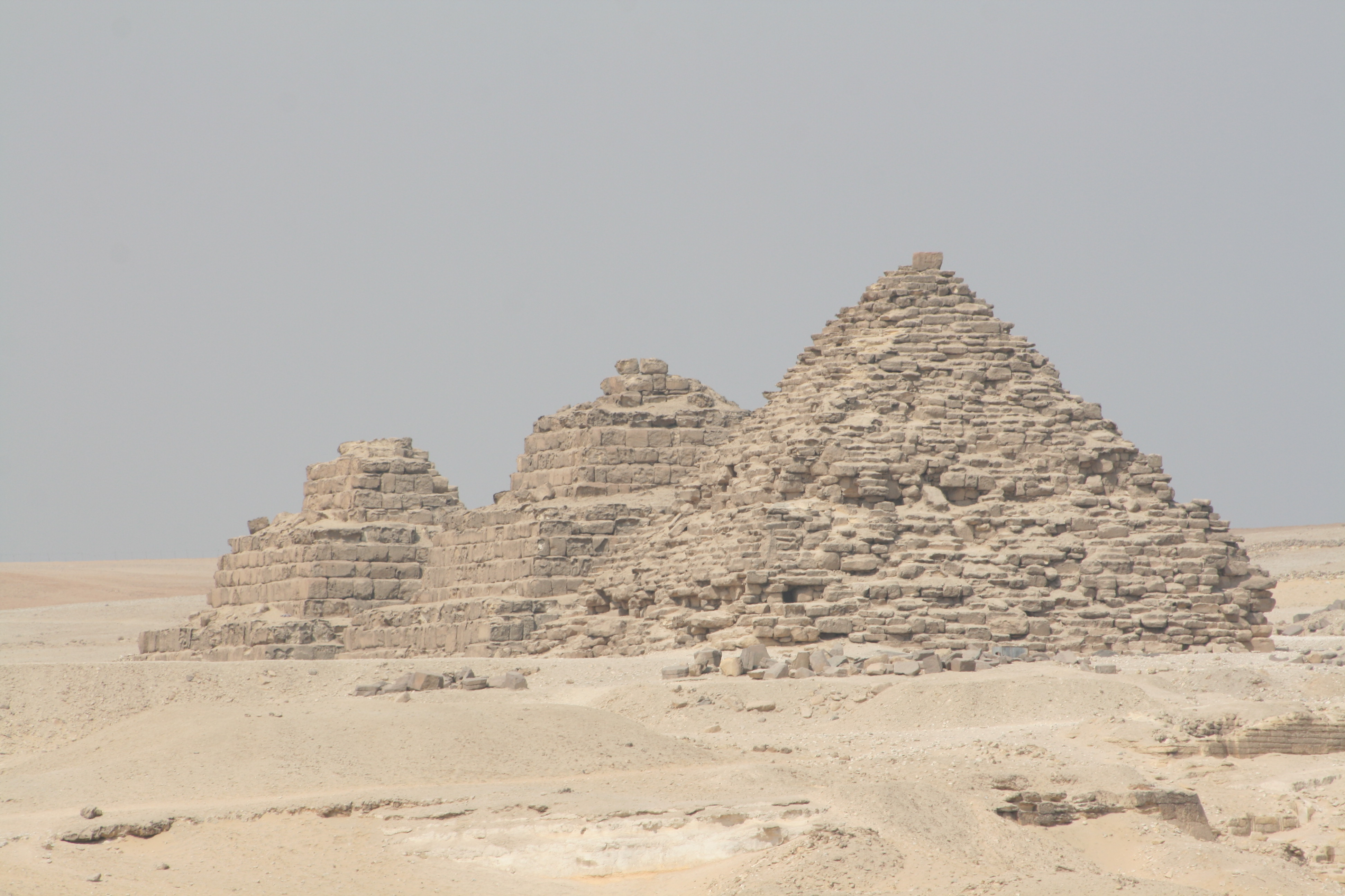 Queens Pyramids, Giza, Egypt